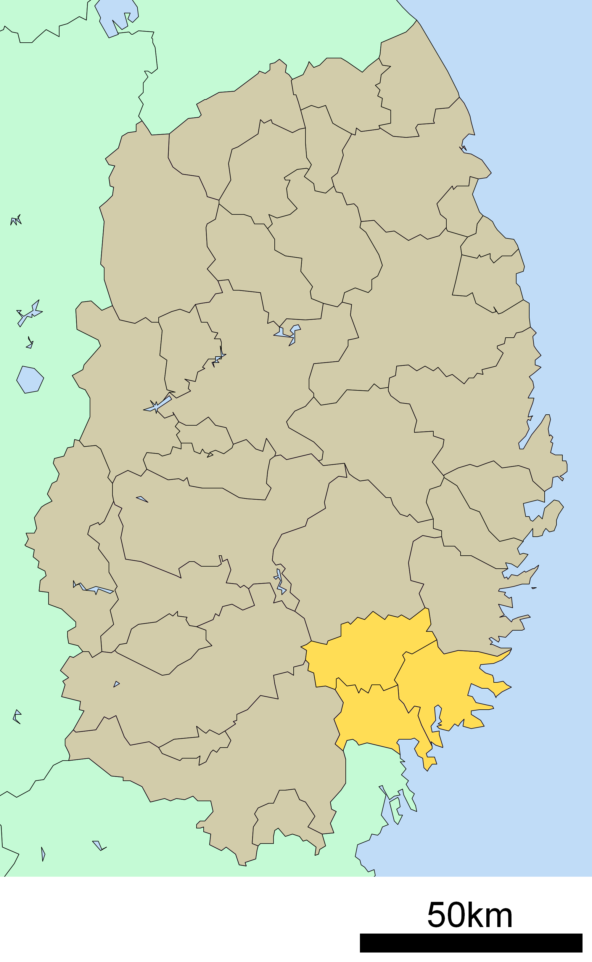 Kesen District in Iwate Prefecture, Japan.